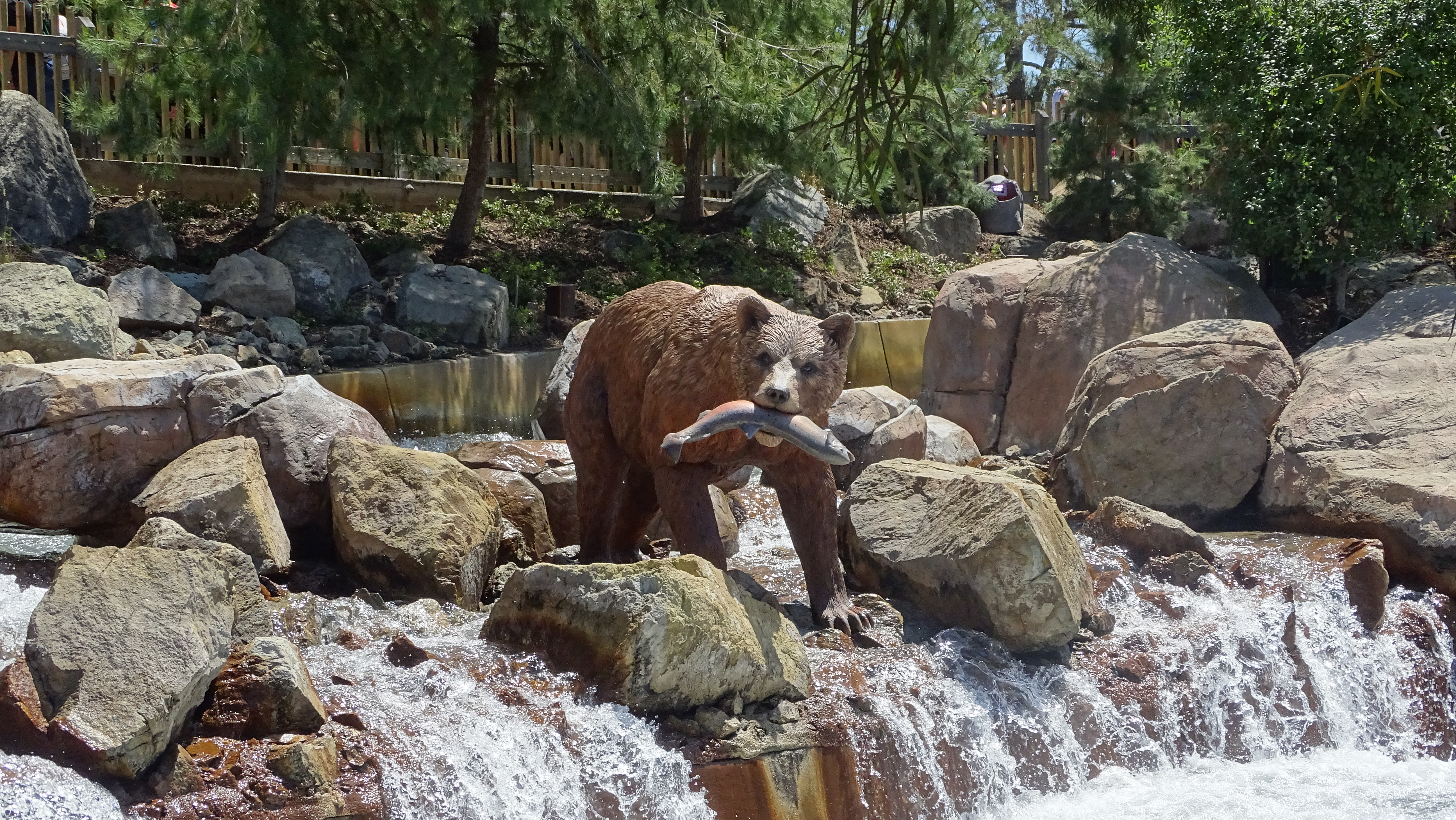 A California grizzly bear eating tuna along the Calico River.